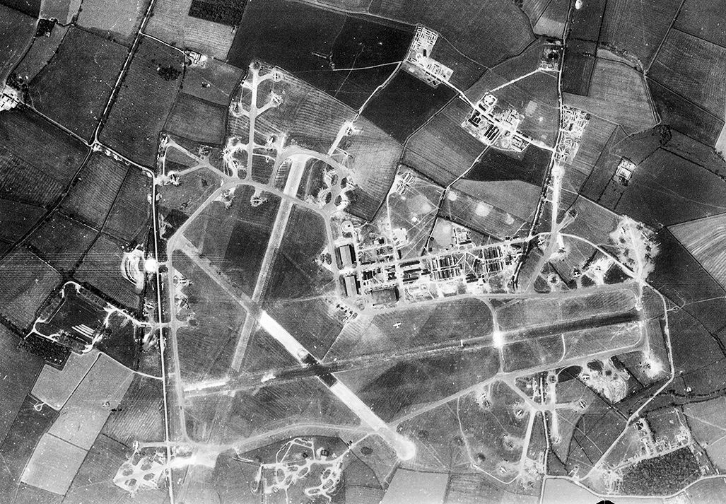 Aerial photograph of Molesworth airfield looking east, the main runway runs vertically, 9 May 1944. Photograph taken by 7th Photographic Reconnaissance Group, sortie number US/7GR/LOC334. English Heritage (USAAF Photography).